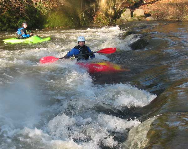 Messing about on the River. Members of the Bridgend Canoe Club play in the weir(s) on the Ogmore river at Brynmenyn.